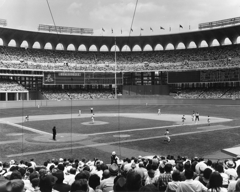 Collection Name: Commerce and Industrial Development Collection Photographer/Studio: Walker, Ralph Description: Baseball game between the St. Louis Cardinals and Philadelphia Phillies. Coverage: United States - Missouri - St. Louis - St. Louis City Date: ca. 1960s Rights: Copyright is in the public domain. Credit: Courtesy of Missouri State Archives Image Number: CID_B133F19 Institution: Missouri State Archives